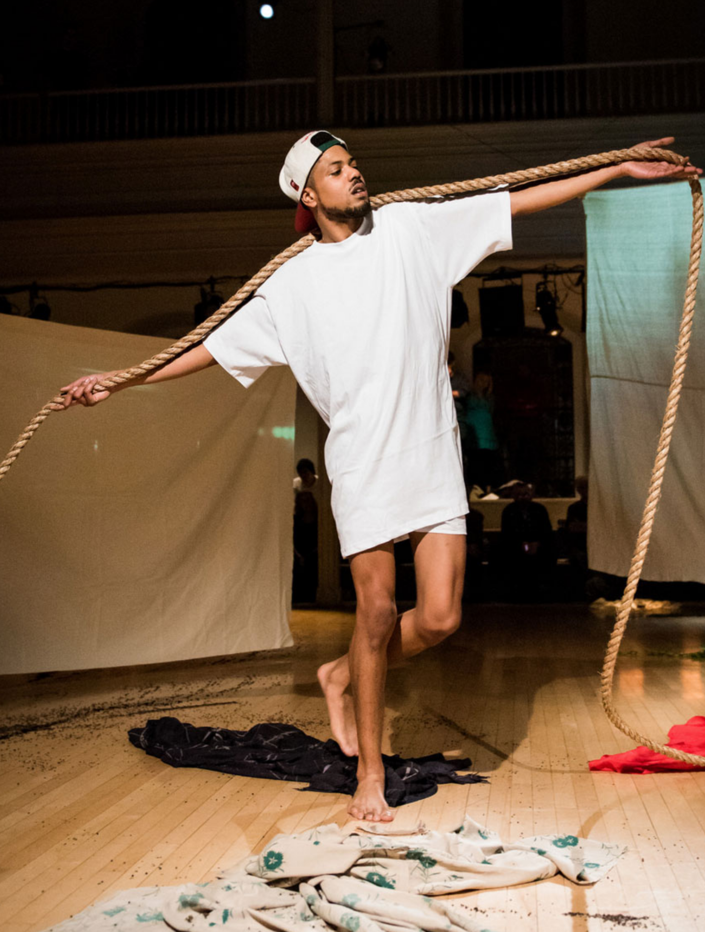 DonChristian 2016 Body In Places